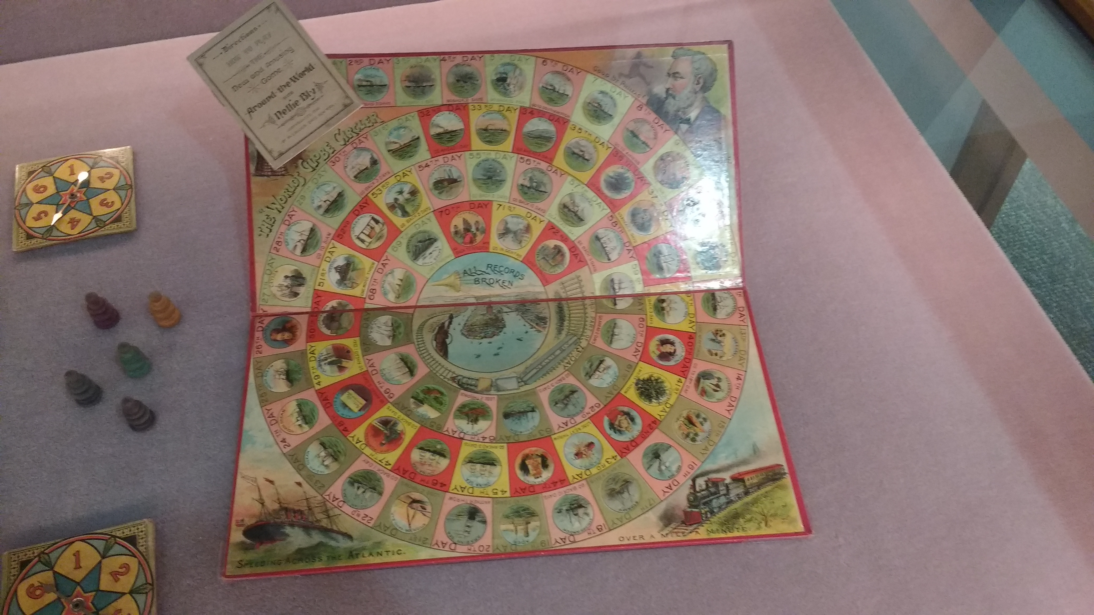 Round the World Nellie Bly board game, board and pieces. Round the World with Nellie Bly is a board game which was published in 1890 by McLoughlin Bros., New York, in celebration of Nellie Bly's circumnavigation of the globe in record time, between November 14, 1889 and January 25, 1890.